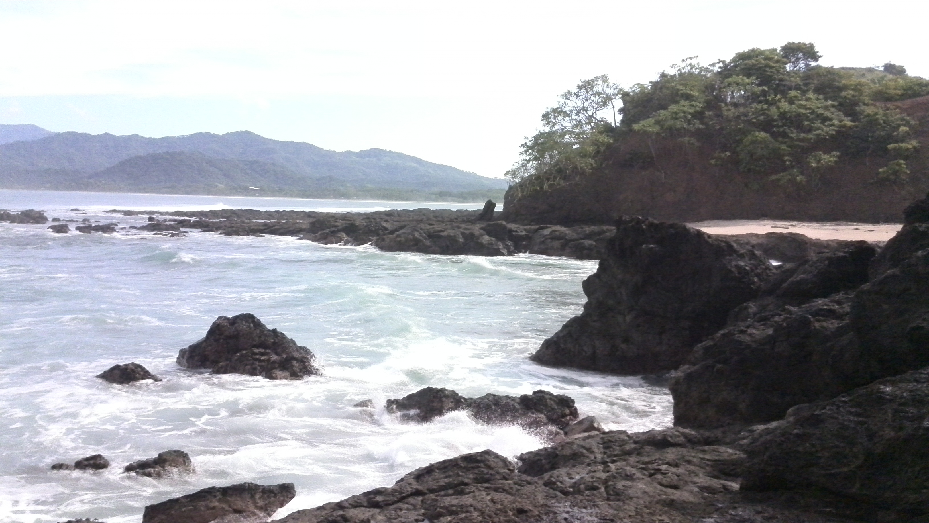 Punta Coyote Costa Rica